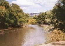 Gila River near town of Riverside